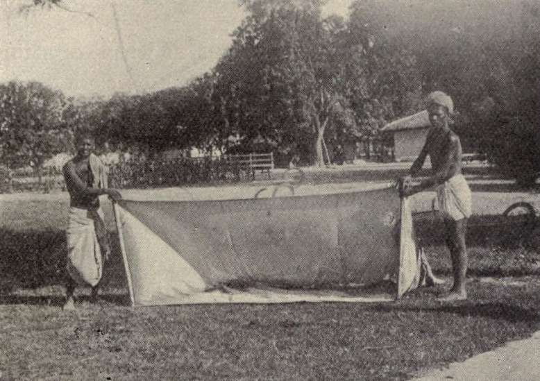 A bag to drag across the field to dislodge and collect pests